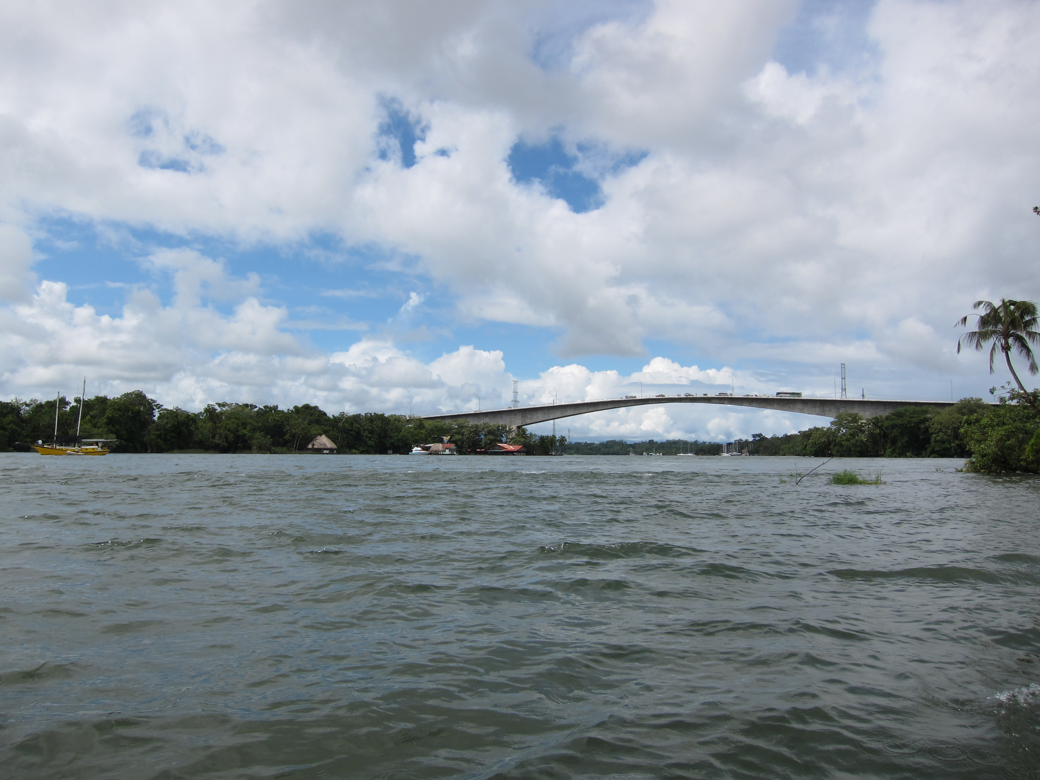 The bridge over Rio Dulce